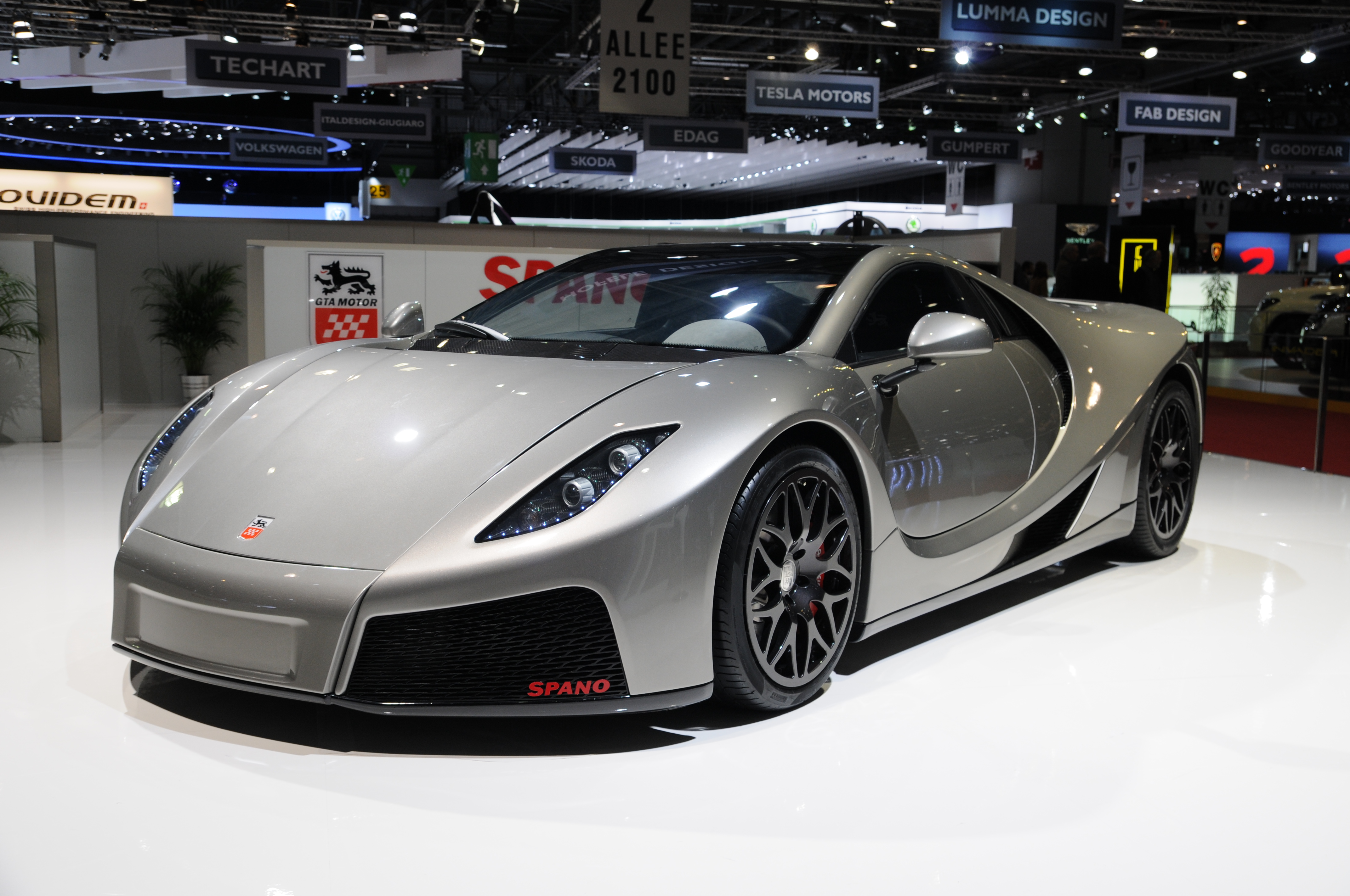 Geneva Motor Show 2012 (photos taken on the second press day)